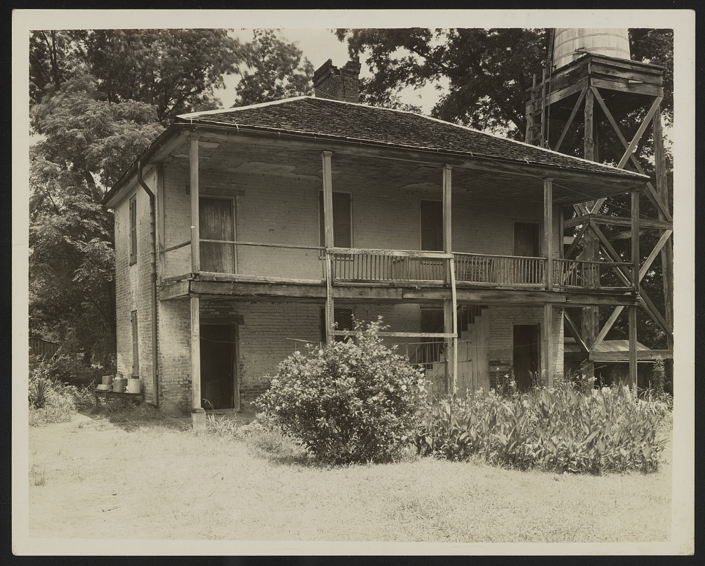 One of the two rear dependency buildings at Lansdowne Plantation